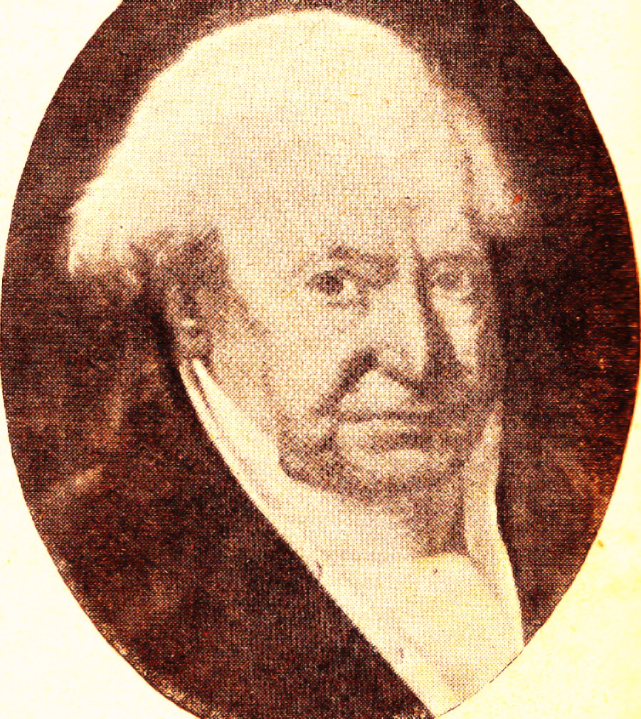 Zuijlen van Nijevelt